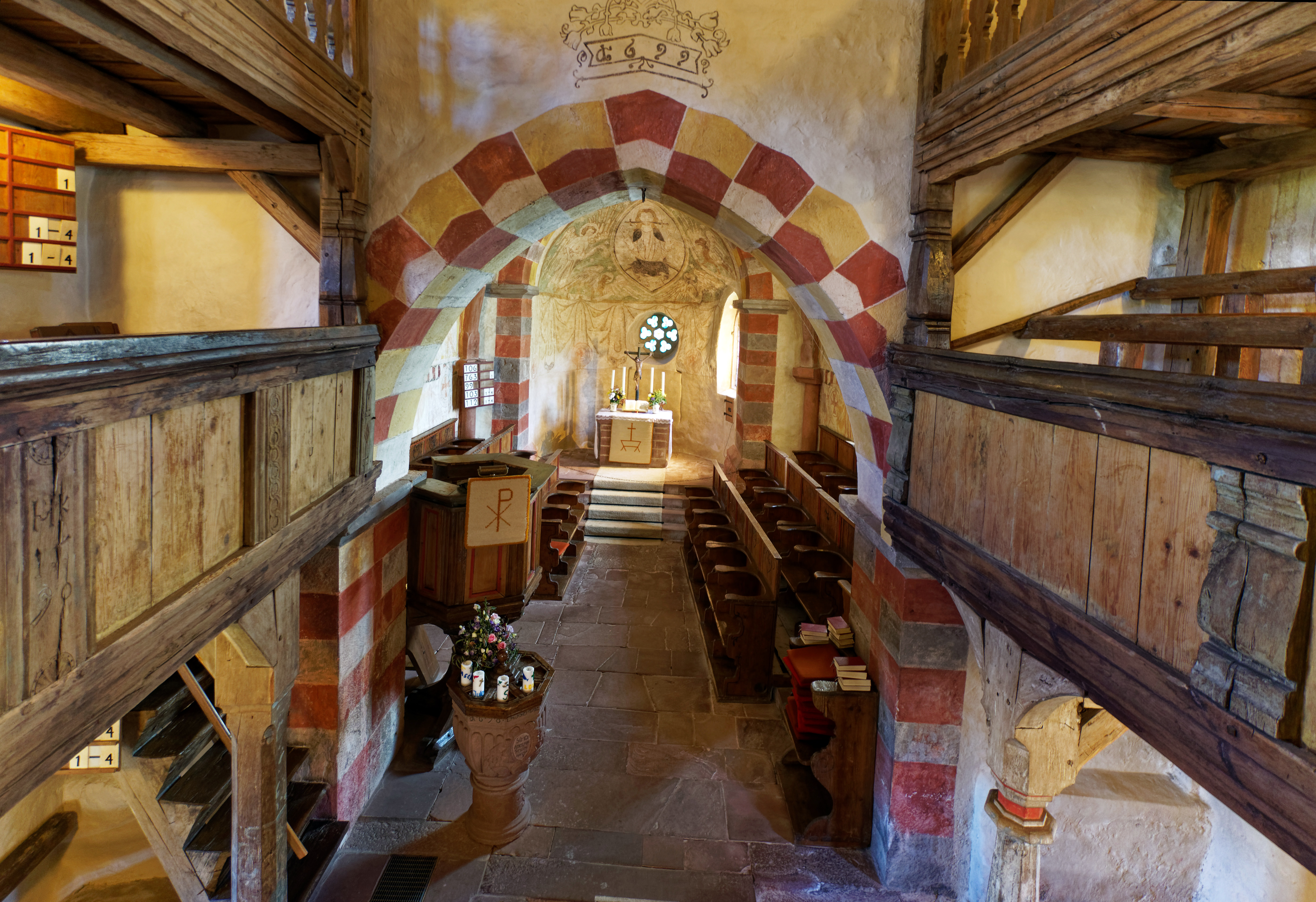 The St. Jame´s Church in Urphar.